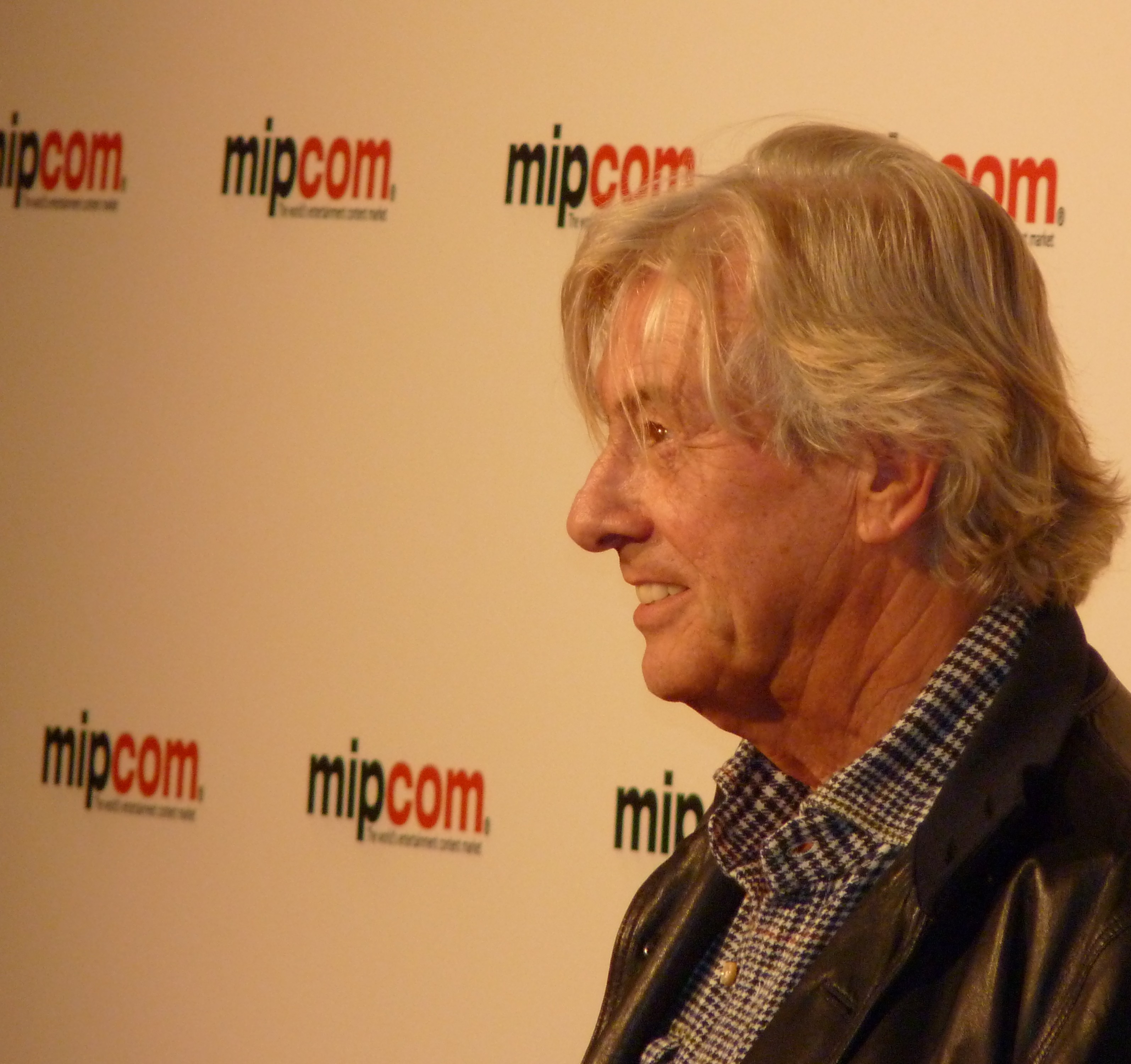 Paul Verhoeven at the 2011 MIPCOM, in Cannes.